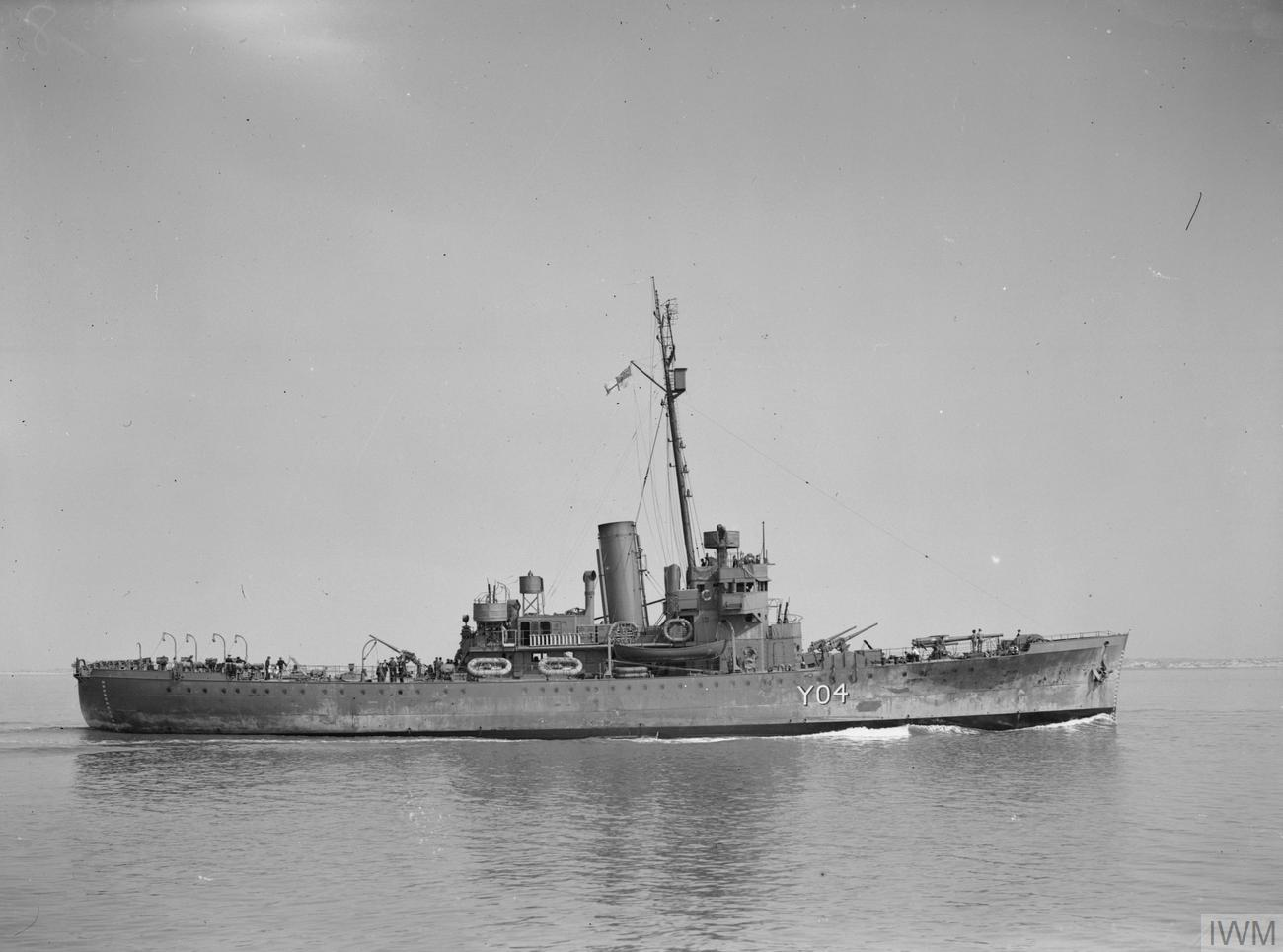 HMS WALNEY, formerly USS SEBAGO, after refit. Underway in coastal waters.